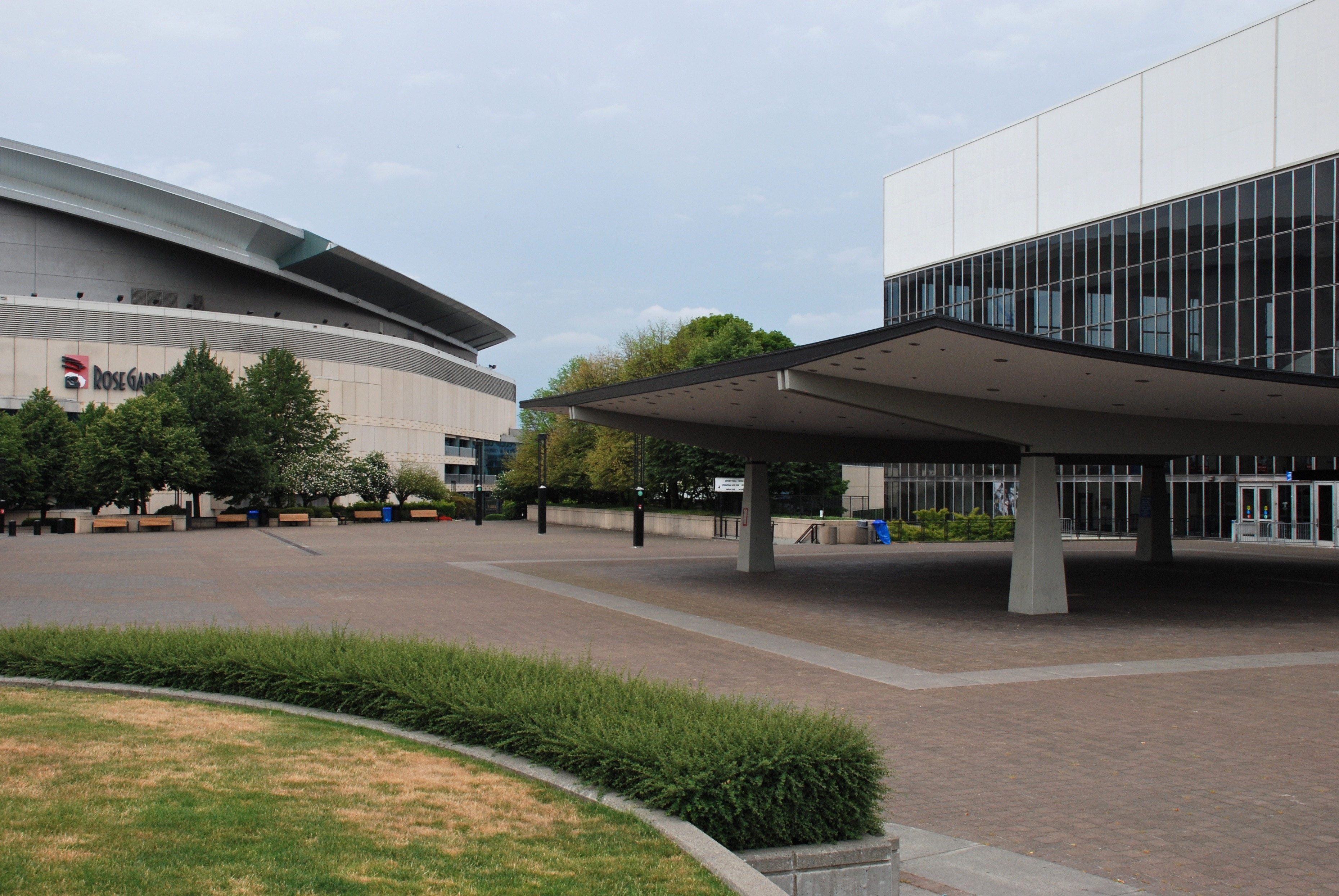 The entrance, with upward-swooping canopy, to the 1960-built Memorial Coliseum, in Portland, Oregon. In the background is the Rose Garden arena. The older building is listed on the U.S. National Register of Historic Places.